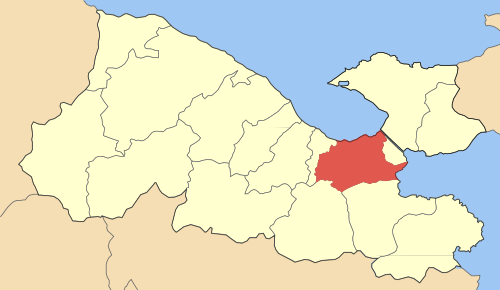 Locator map of Korinthion municipality (Δήμος Κορινθίων) at Korinthias perfecture, Greece.